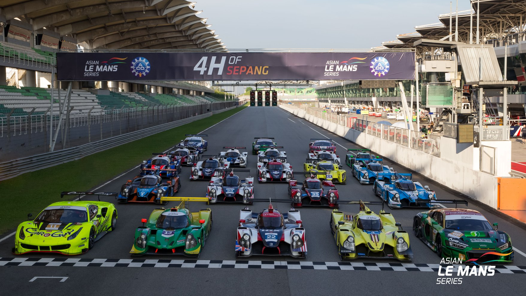 2019 4 hours of Sepang - Asian Le Mans Series